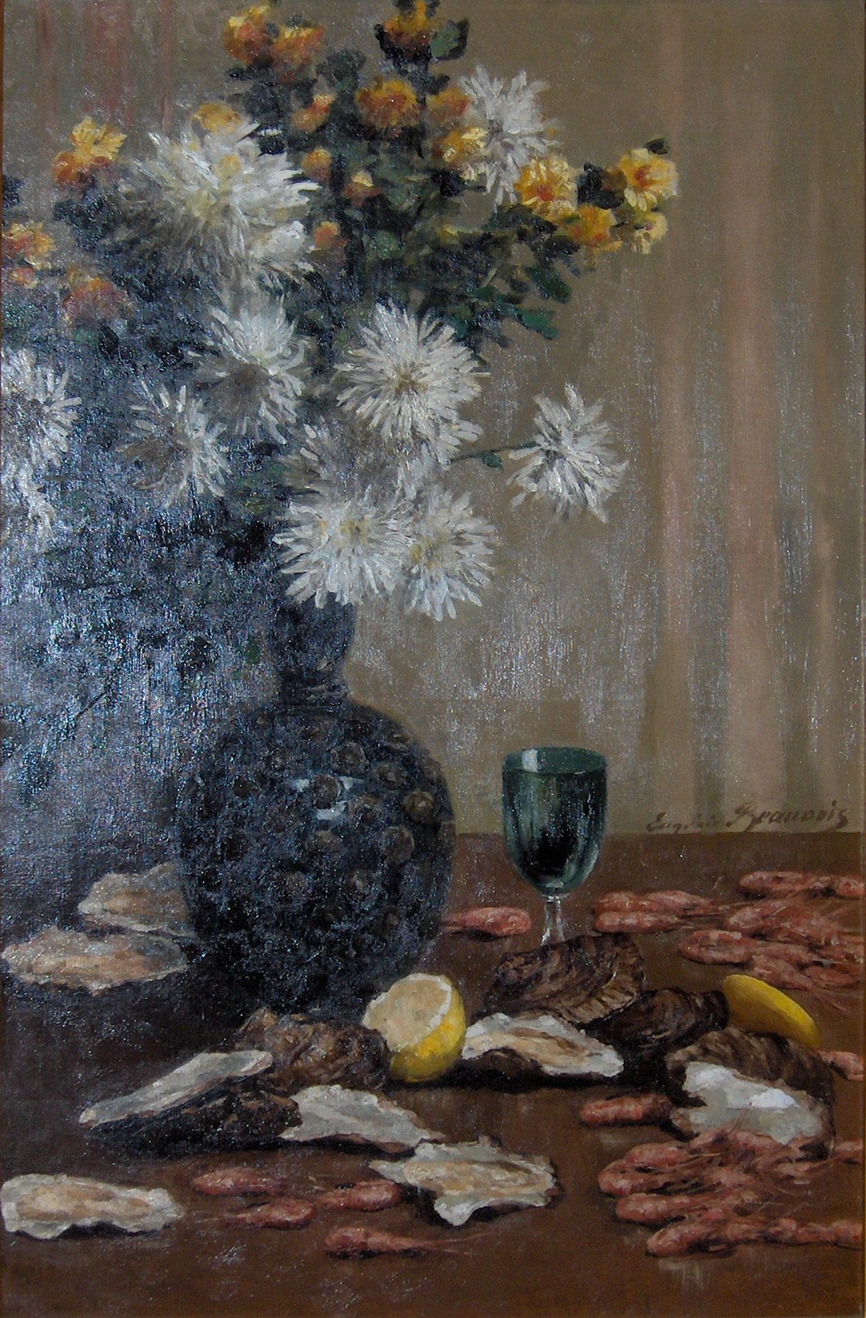 "Still life with oysters and shrimps", oil painting by Eugenie Beauvois (19th century)